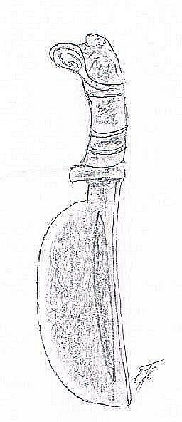 Bendo